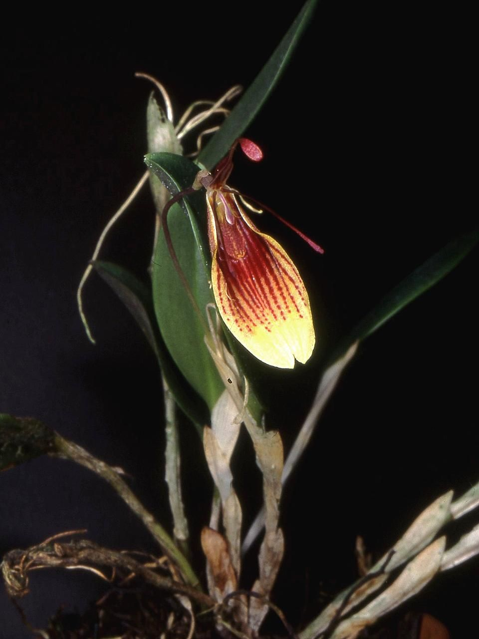 Restrepia iris - flower